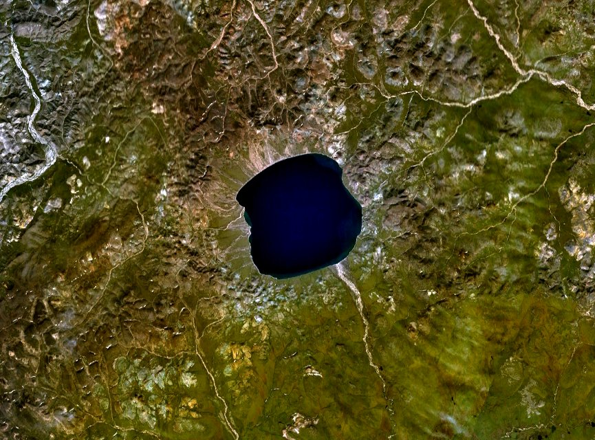 El'gygytgyn, Russia, is a impact crater with a diameter of 18 km. Its age is estimated to be 3.5 million years.